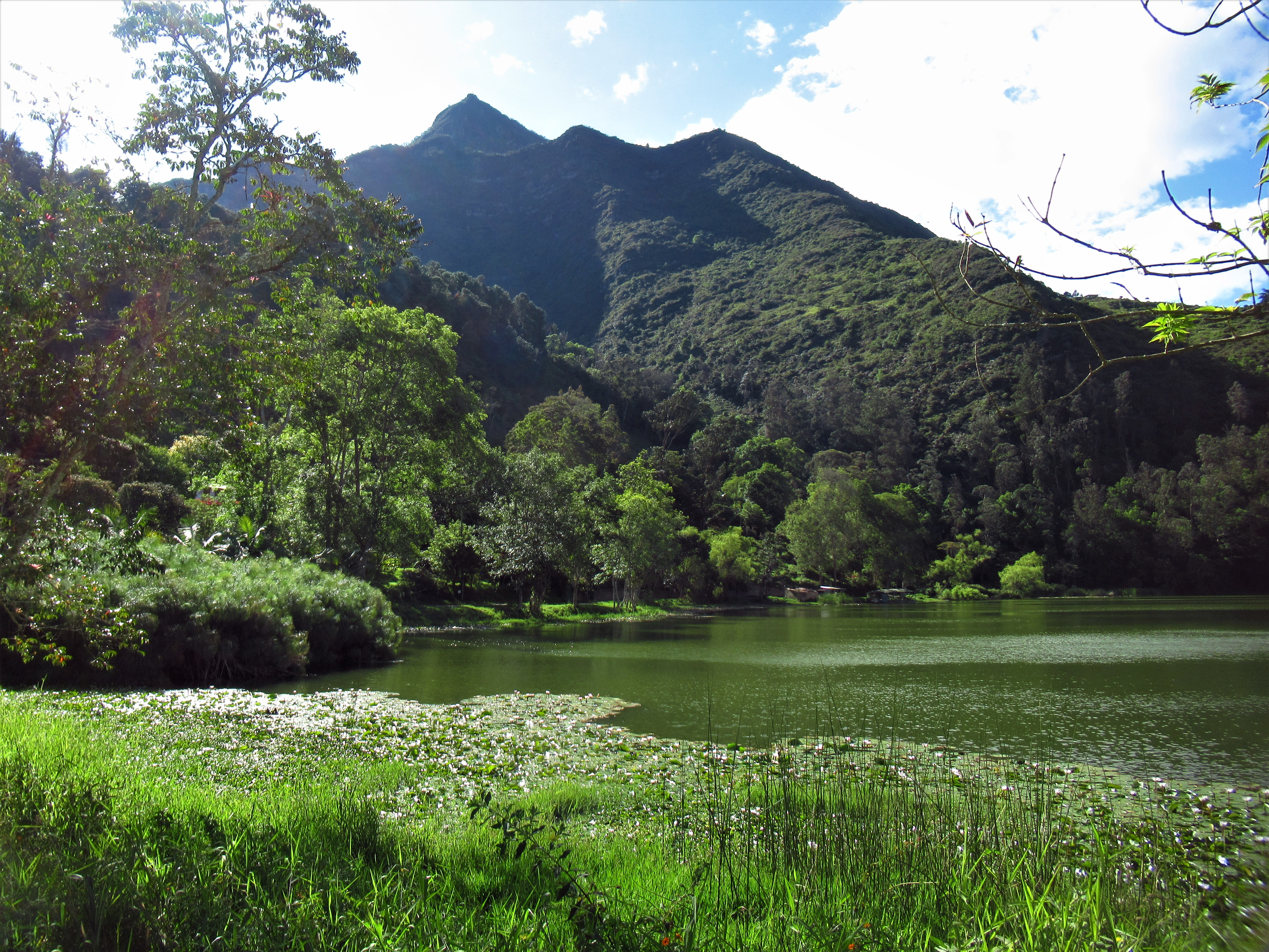 Ubaque